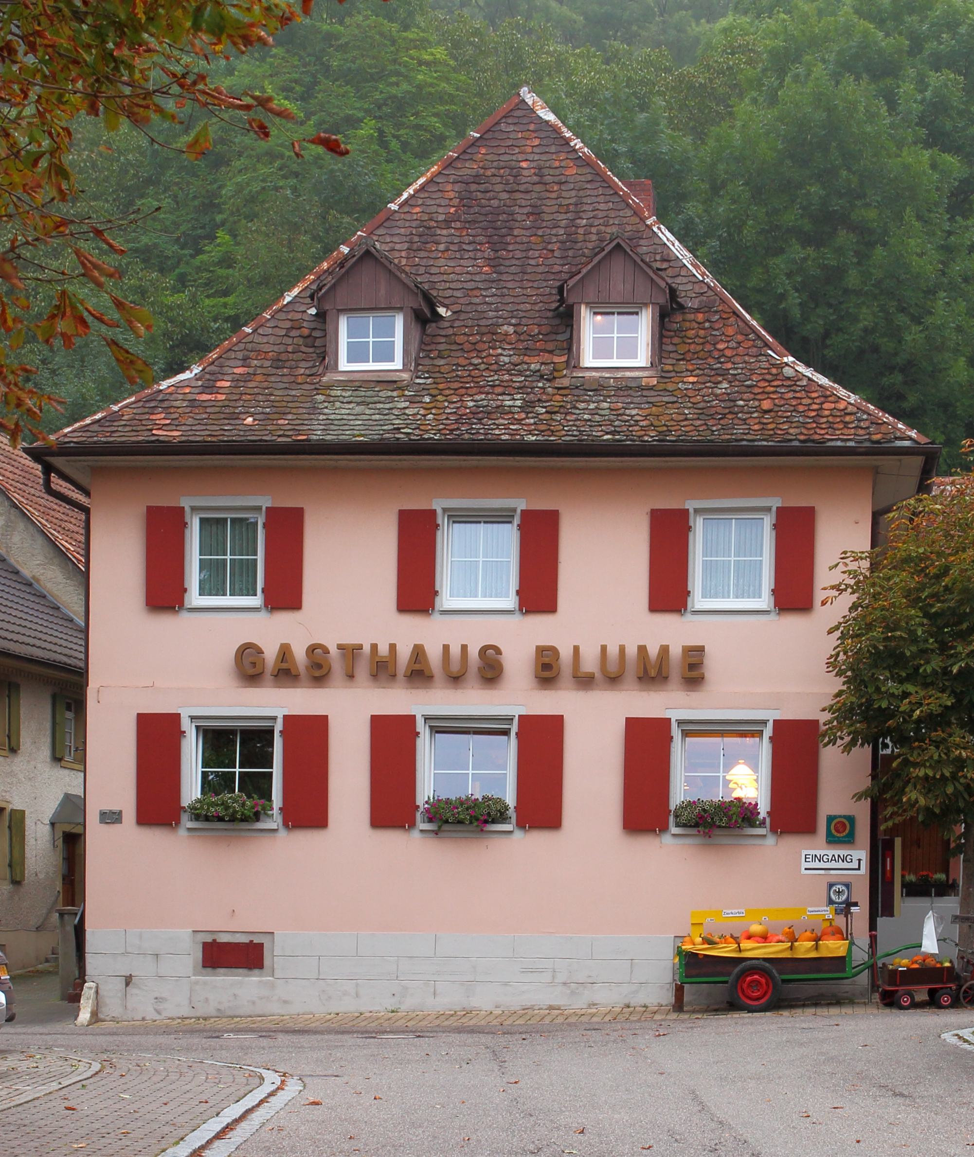 Kleinkems, southern Germany. Gasthaus Zur Blume.